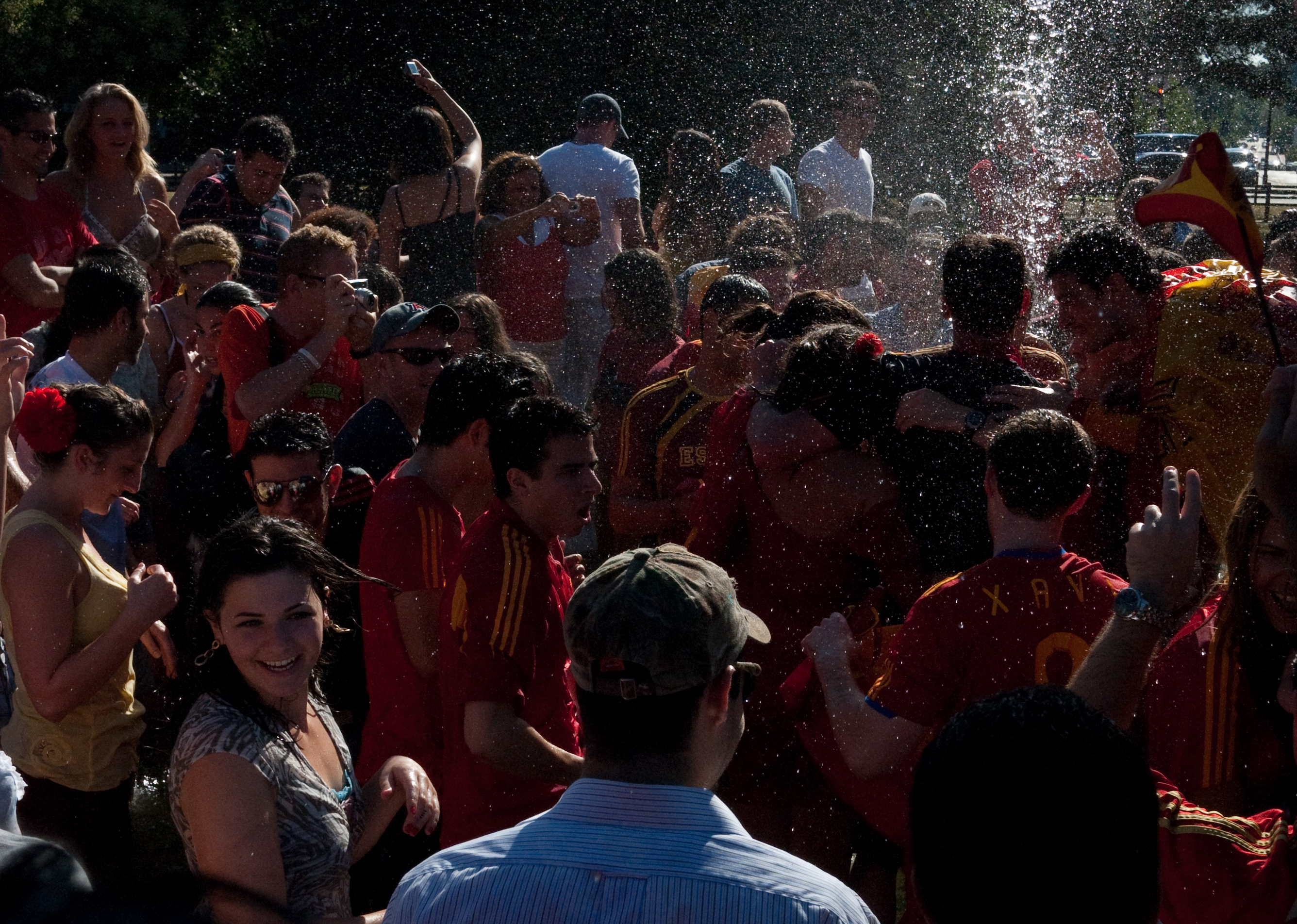 After the game, in the fountain